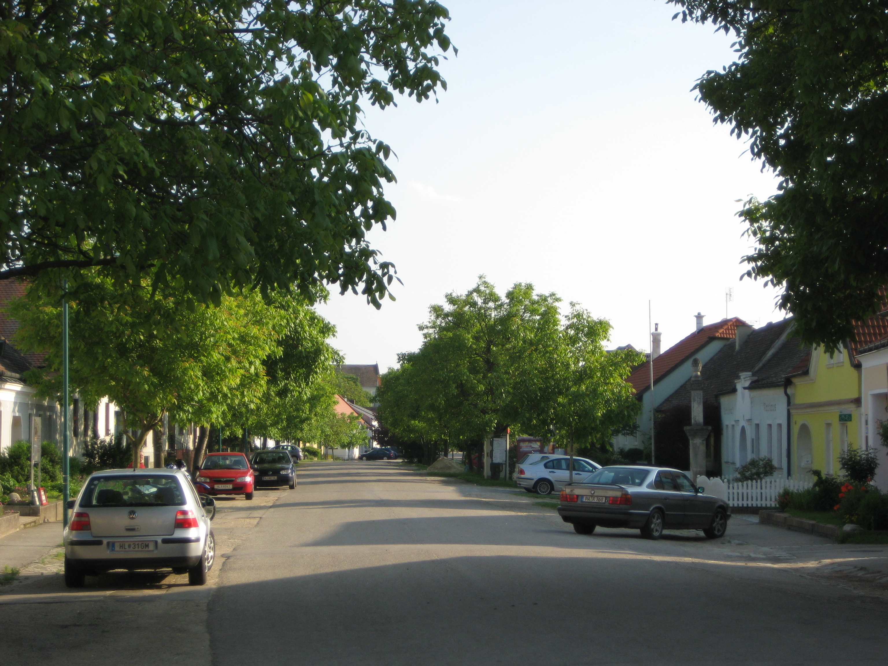 Schrattenthal